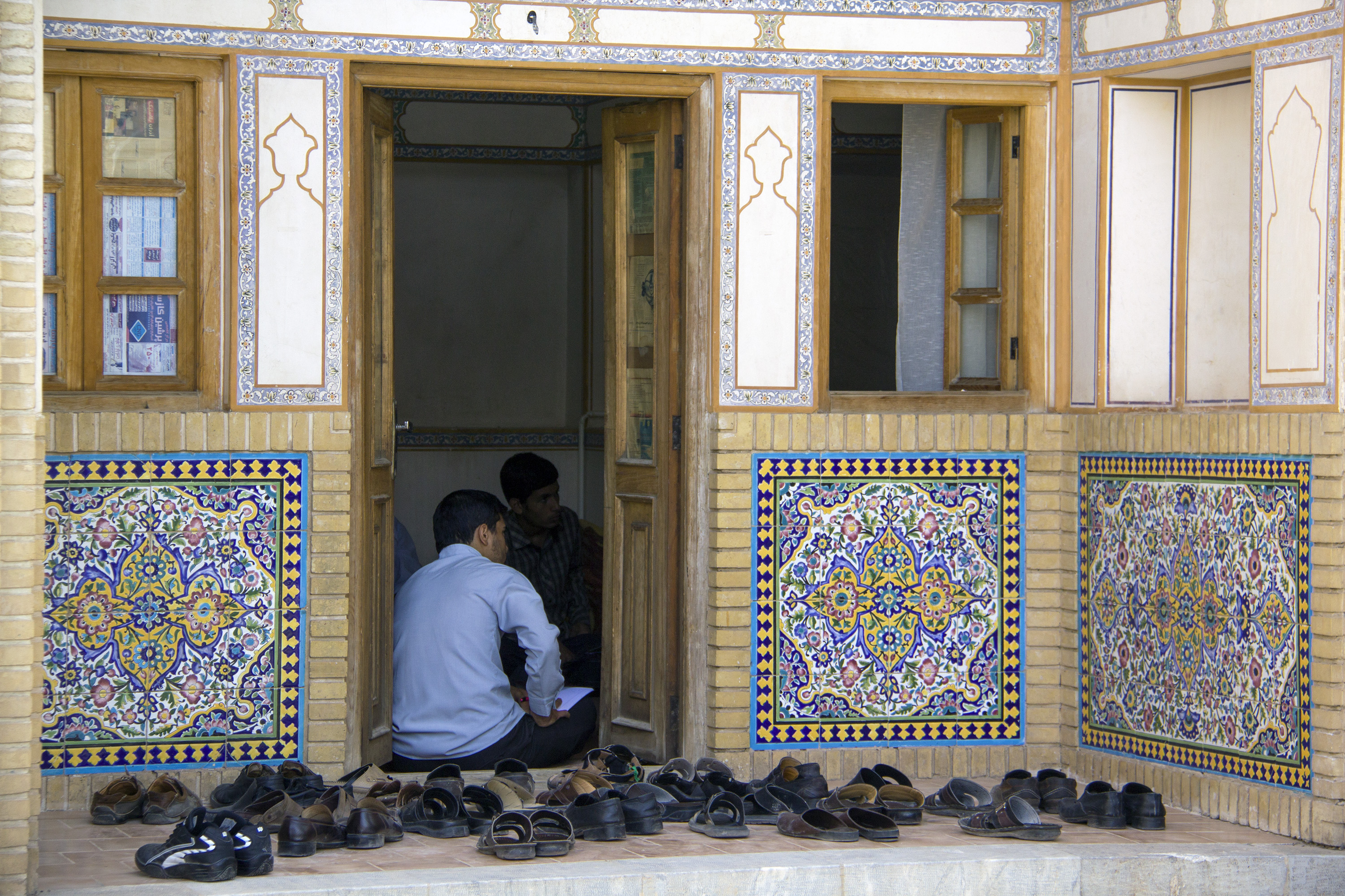 Clergy are some of the main and important formal leaders within certain religions.